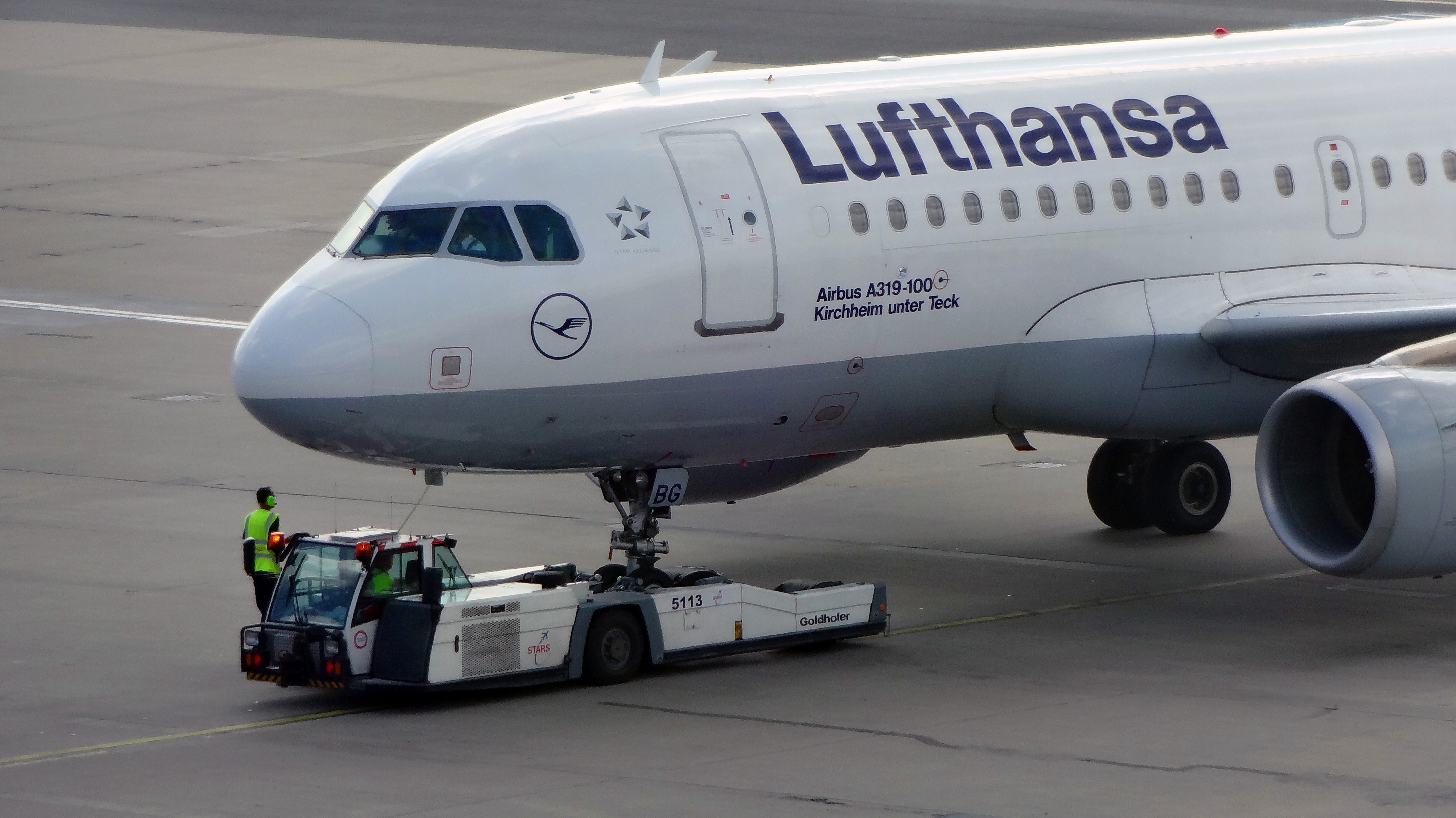 Aircraft A319-100 D-AIBG "Kirchheim unter Teck" at Hamburg airport, 10 minutes before lift-off